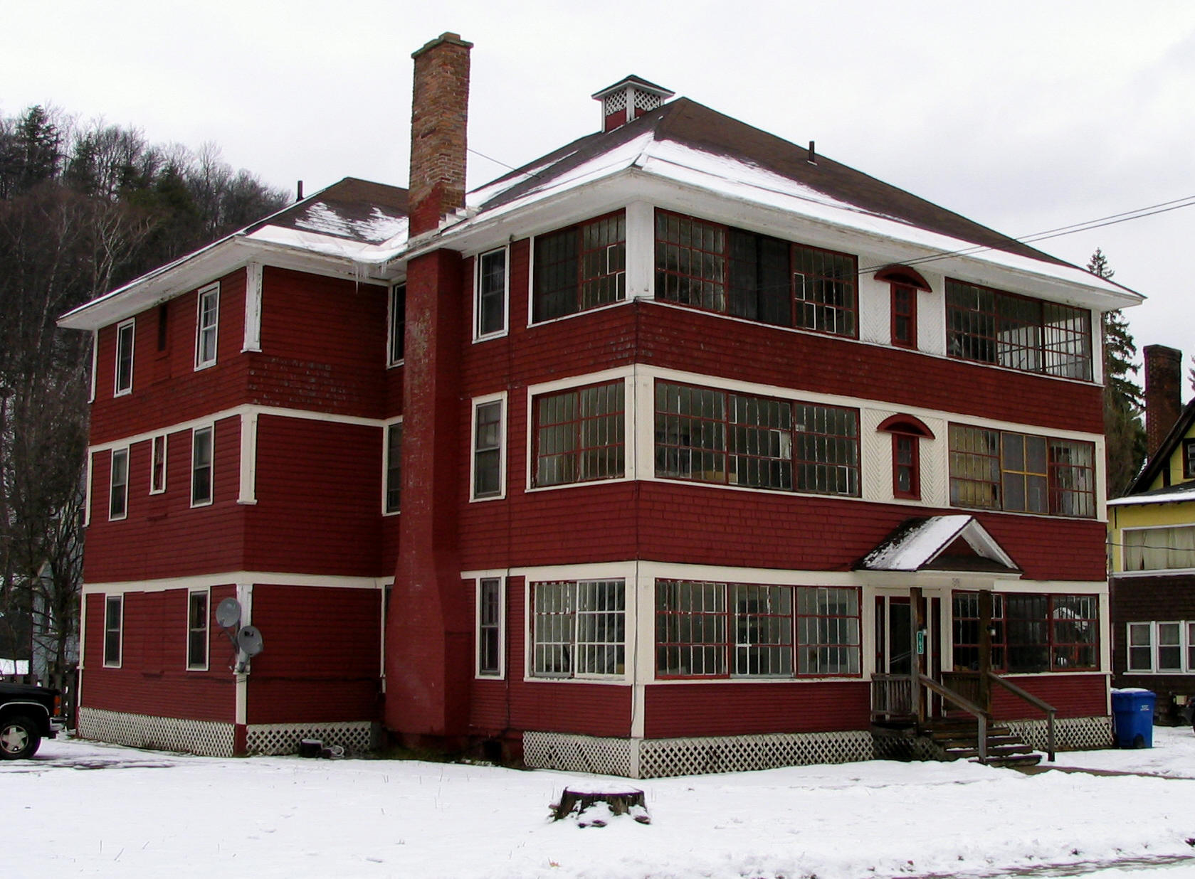 Gonzales Cure Cottage, Saranac Lake, NY